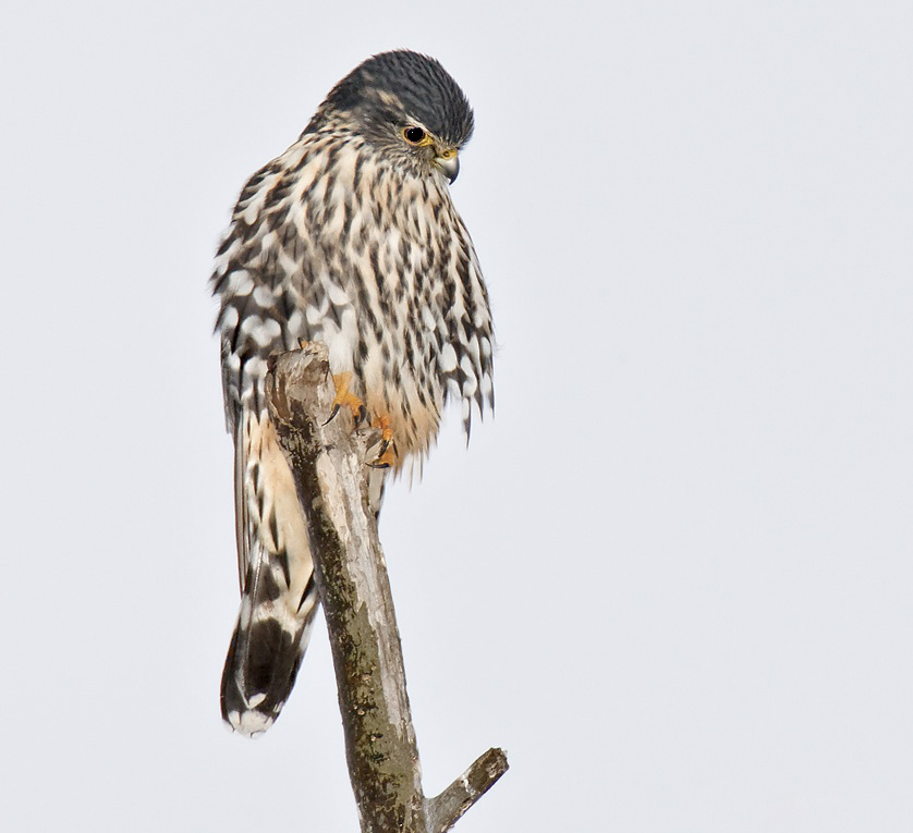 Merlin, eastern USA